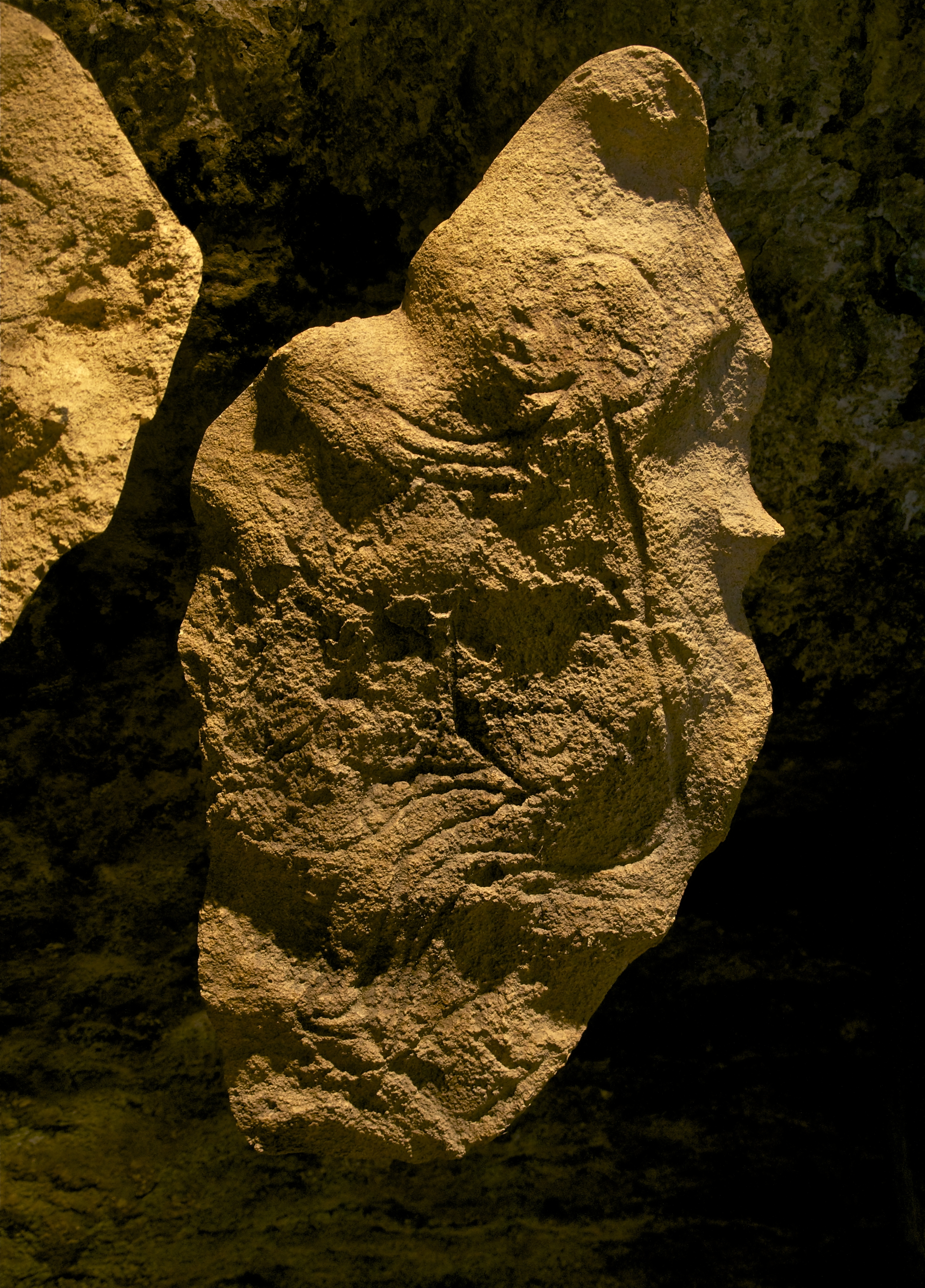 Fac simile of the anthropomorphic engraving of the so-called "Sorcerer", in the museum of the "Grotte de Saint Cirq" in Dordogne, France. The original (50cm x 22cm) was discovered in the grotto in 1953 by Abbé Glory. This is a very rare engraving of a human beeing, from the middle magdalenian (ca. 17.000 BP). The cave is classified as "World Heritage" by UNESCO since 1958.